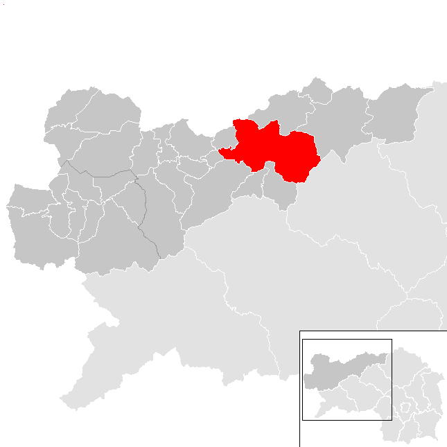 District Leoben